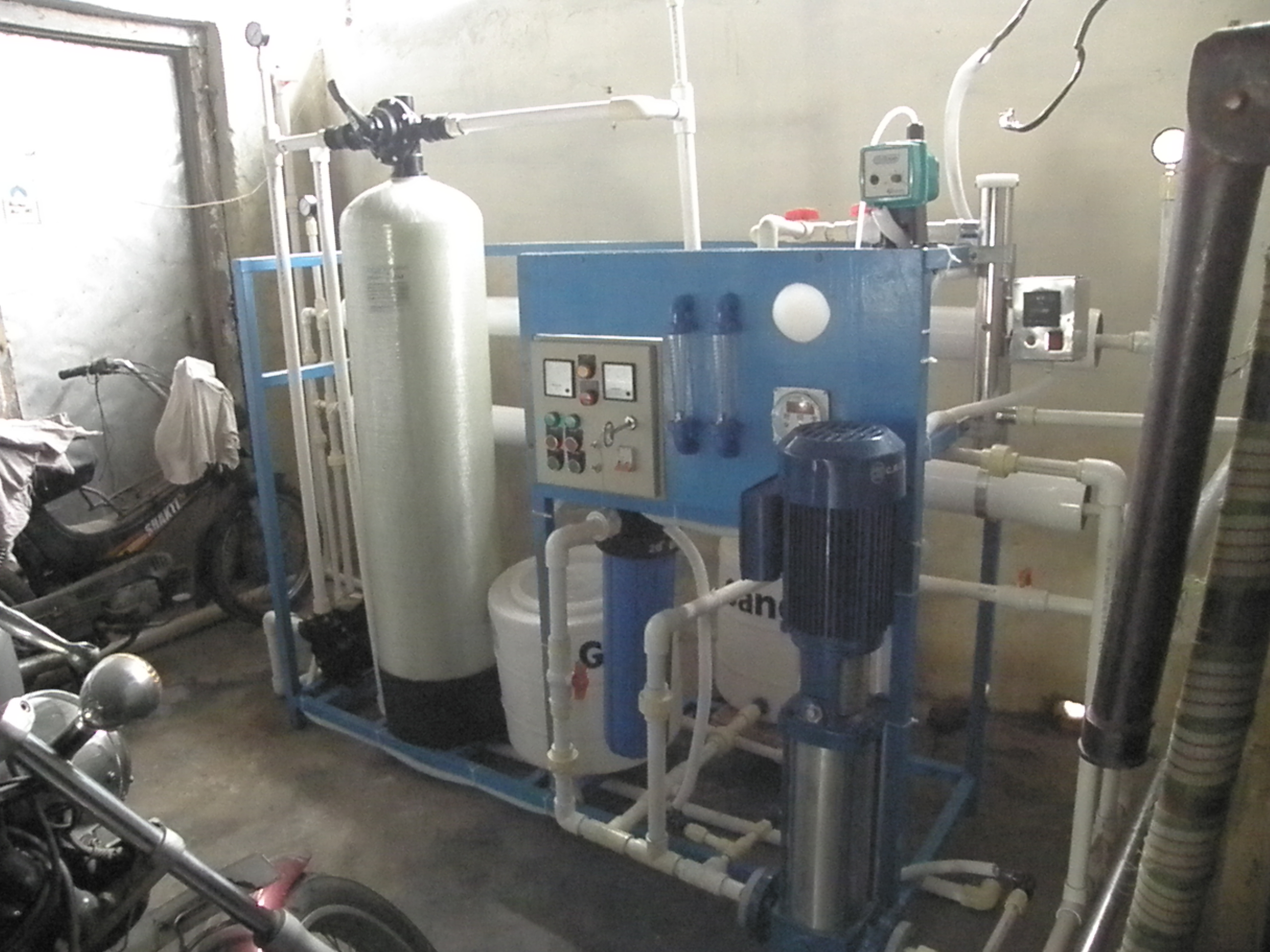 A custom-built 1000 liter reverse osmosis water purification plant for commercial use.